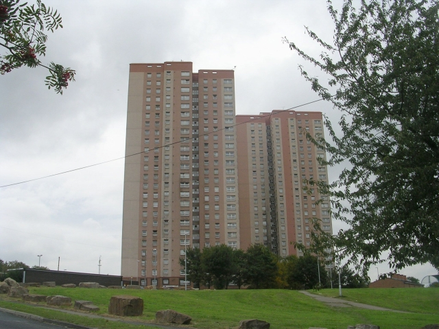 Cottingley Towers - Cottingley Drive